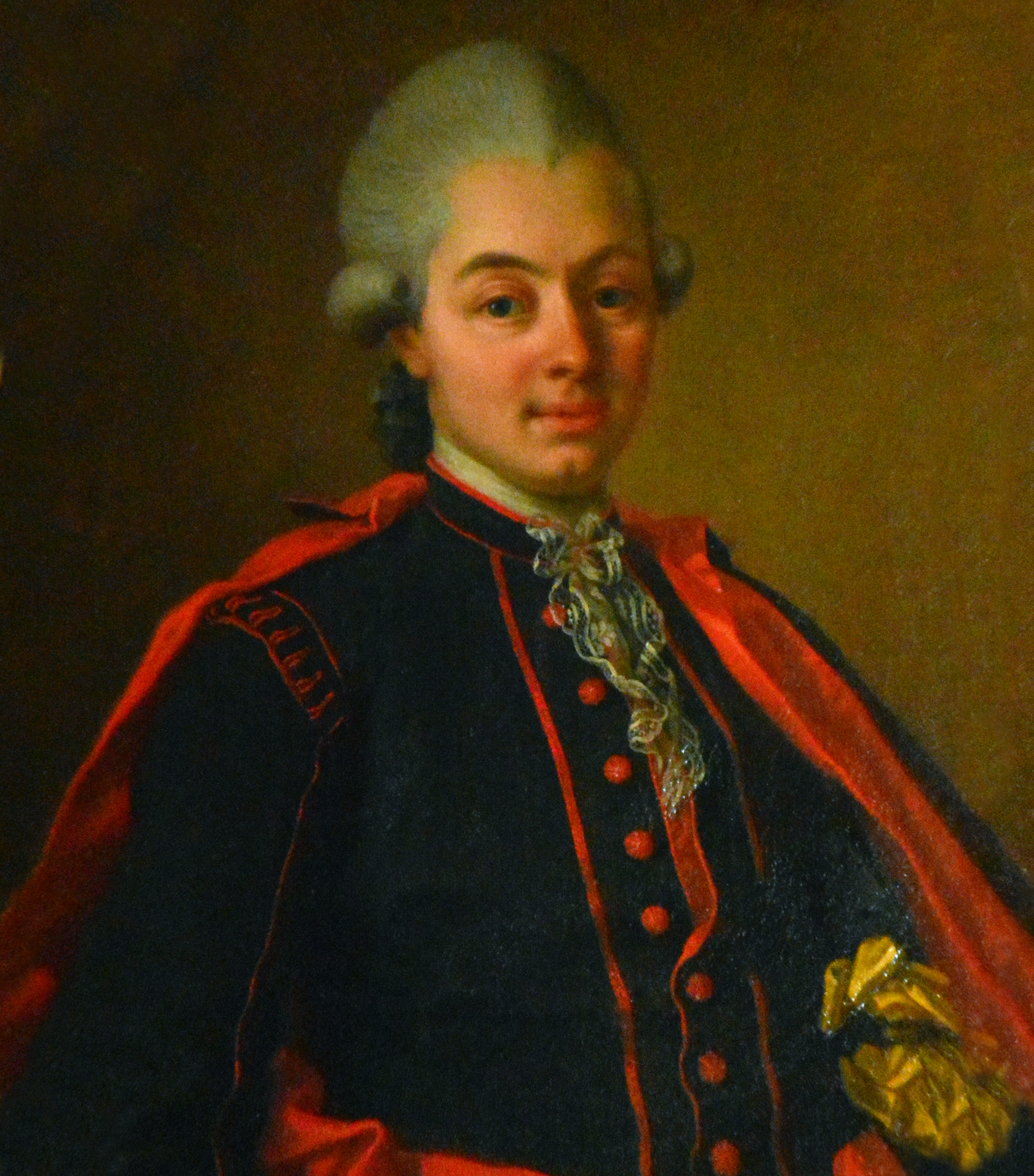 Portrait of Axel Kristian Reuterholm, Swedish